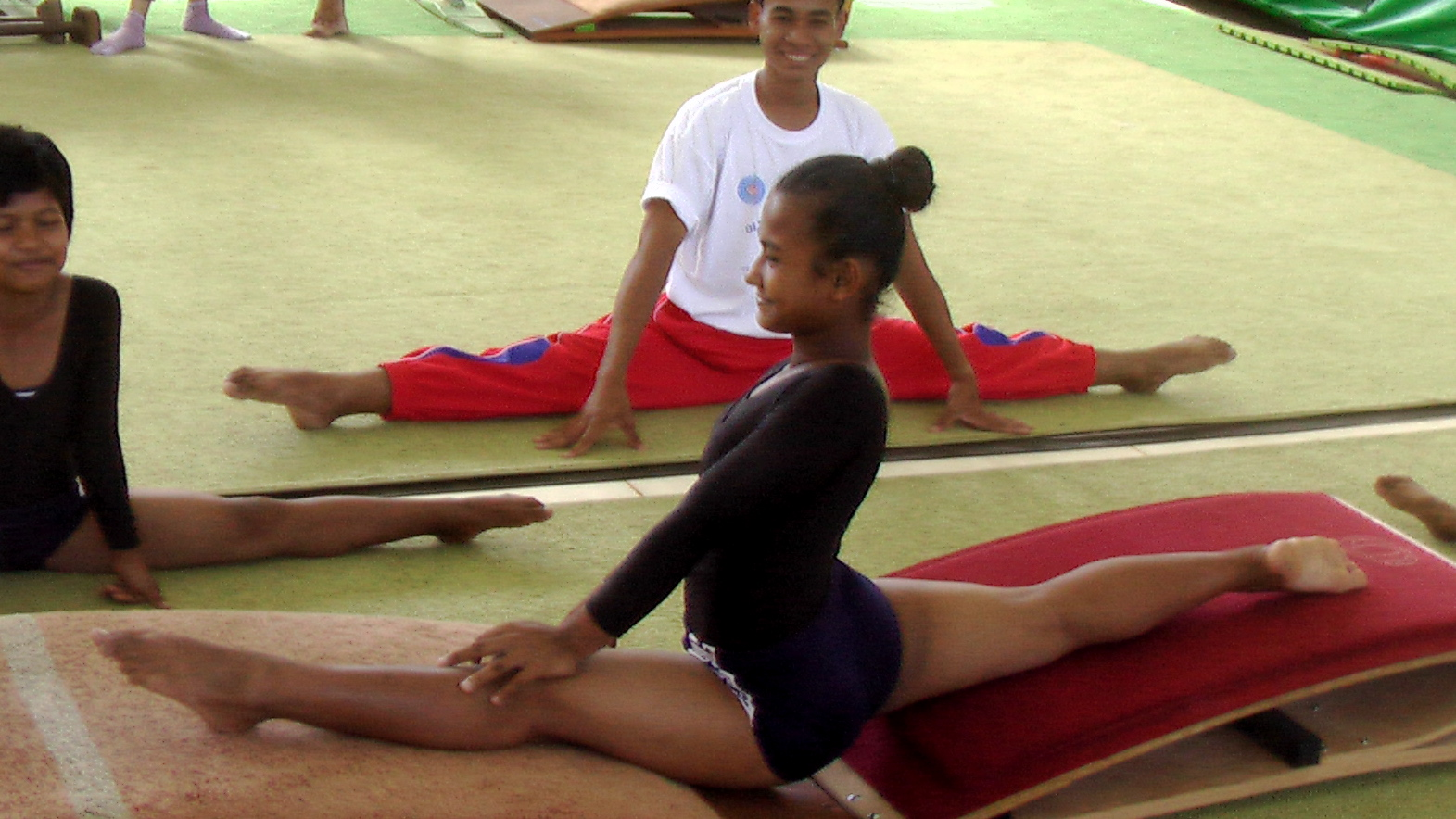 Gymnastics flexibility. Artistic Gymnastics in Cambodia.